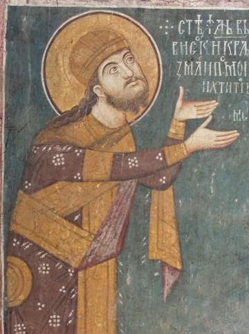 The fresco of king Stefan Dušan praying to the Angel, Dečani, Serbia